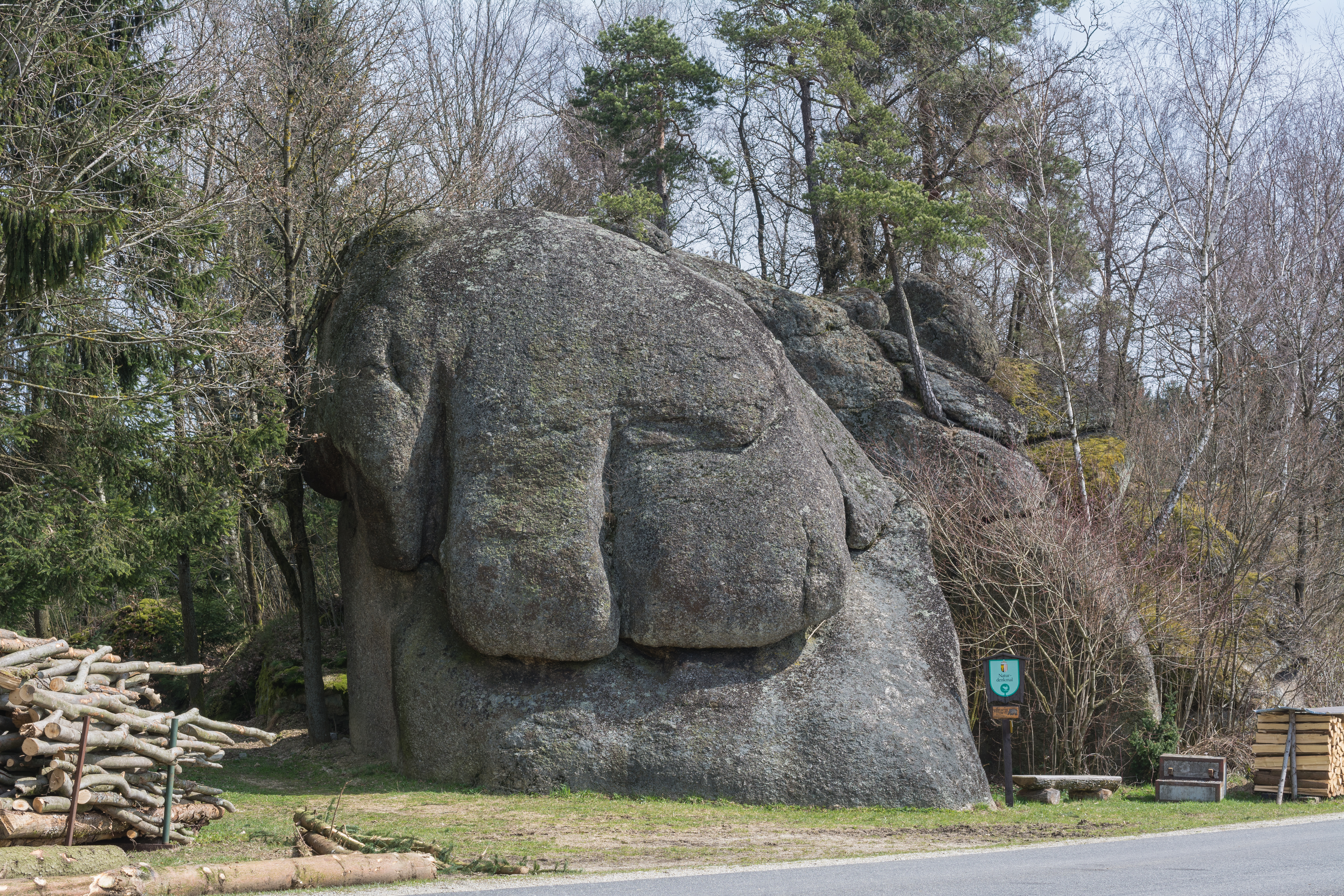 The Elephant Stone in the nature park Mühlviertel is a rock formation out of Weinsberg granite, a very coarse-grained granite. It got its shape by woolsack (spheroidal) weathering and consists of several overlaping blocks which are vegetated by birches, pines, hazel and cherry trees. Remarkable are the crystals of Feldspar at the left side of the rock. Here this crystals can be found in a size up to 10 cm. This media shows the natural monument in Upper Austria with the ID nd568.